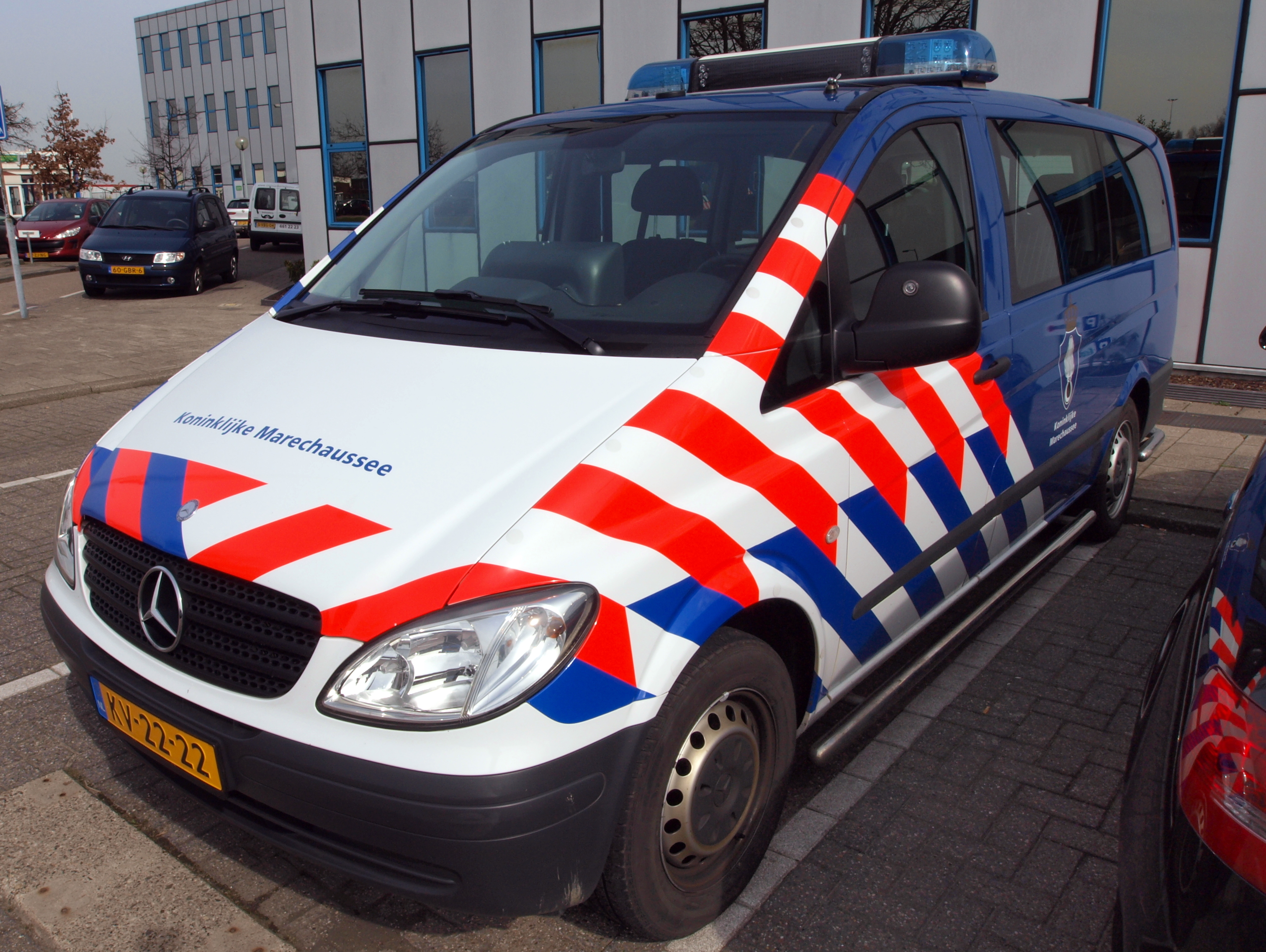 Photographed at Rotterdam Airport, The Netherlands.